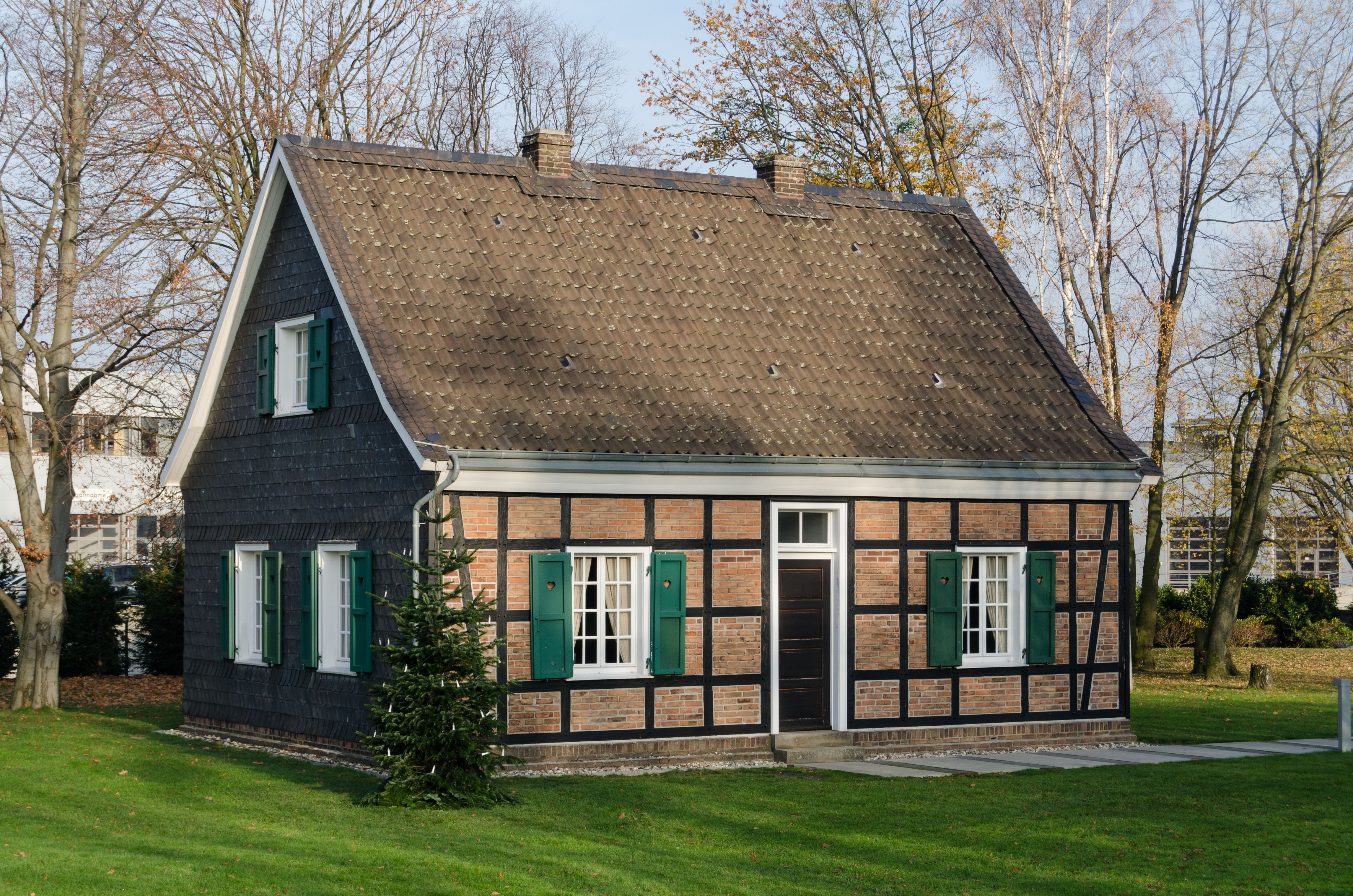 Essen (North Rhine-Westphalia, Germany) – district Westviertel – historic Krupp House